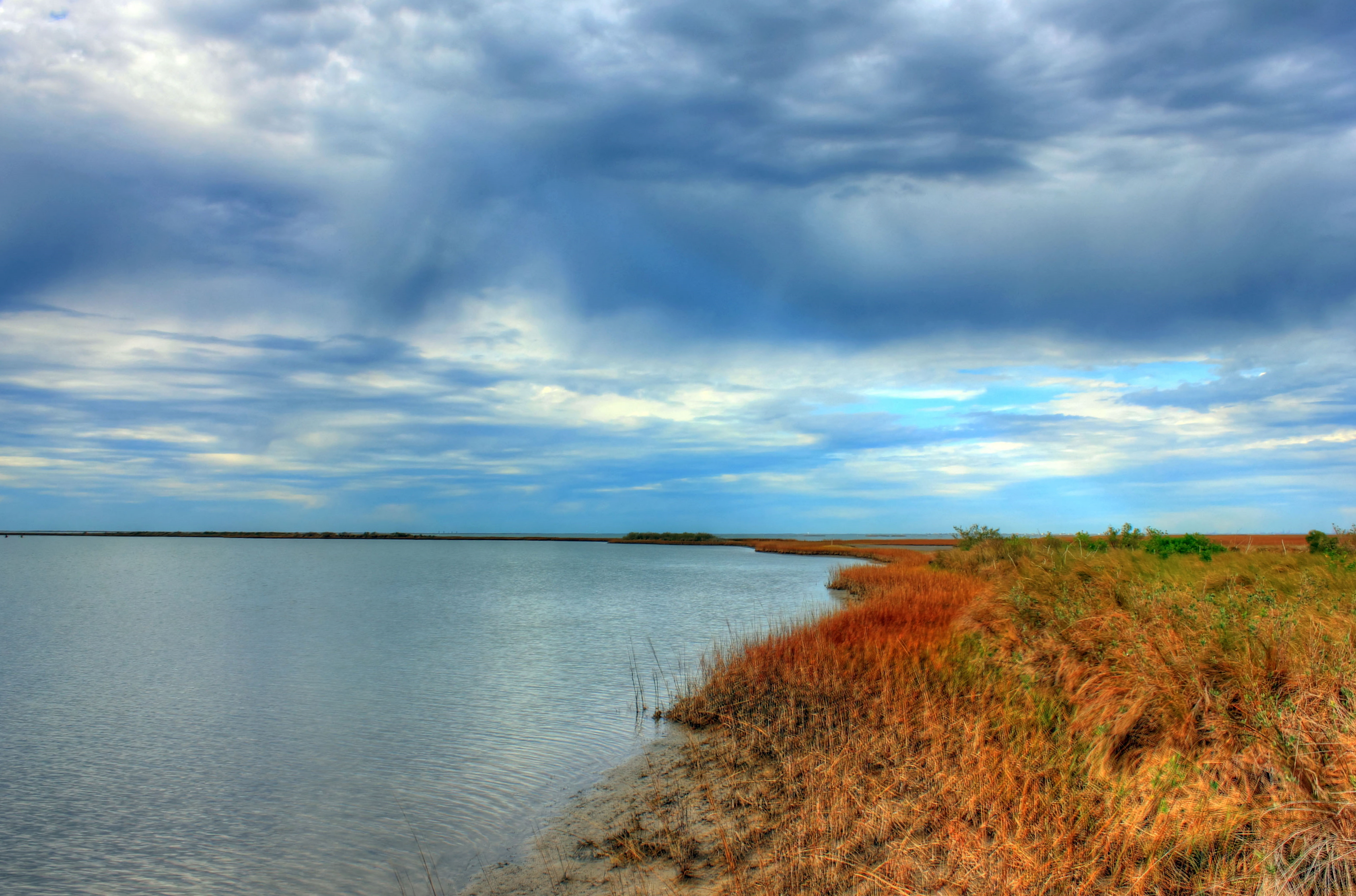 Galveston Island State Park — a 2,013 acre state park on Galveston Island, Gulf Coast of Texas. Shoreline wetland plants on one of the inlet bays of Galveston Bay, with brackish ponds and wetlands for wildlife.